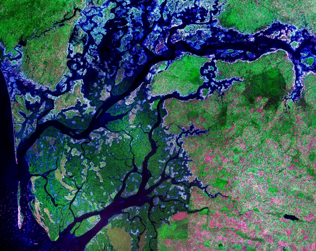 Saloum Islands (Delta), Senegal, Africa